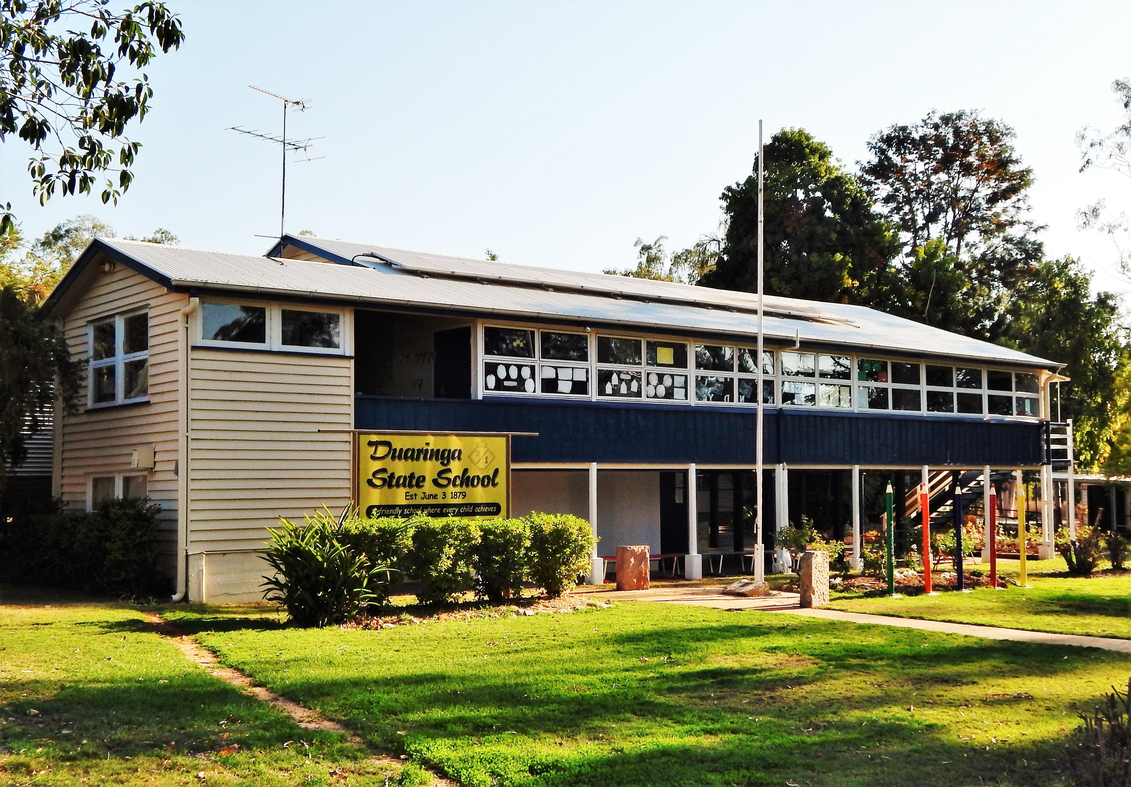 The local primary school in Duaringa, Queensland